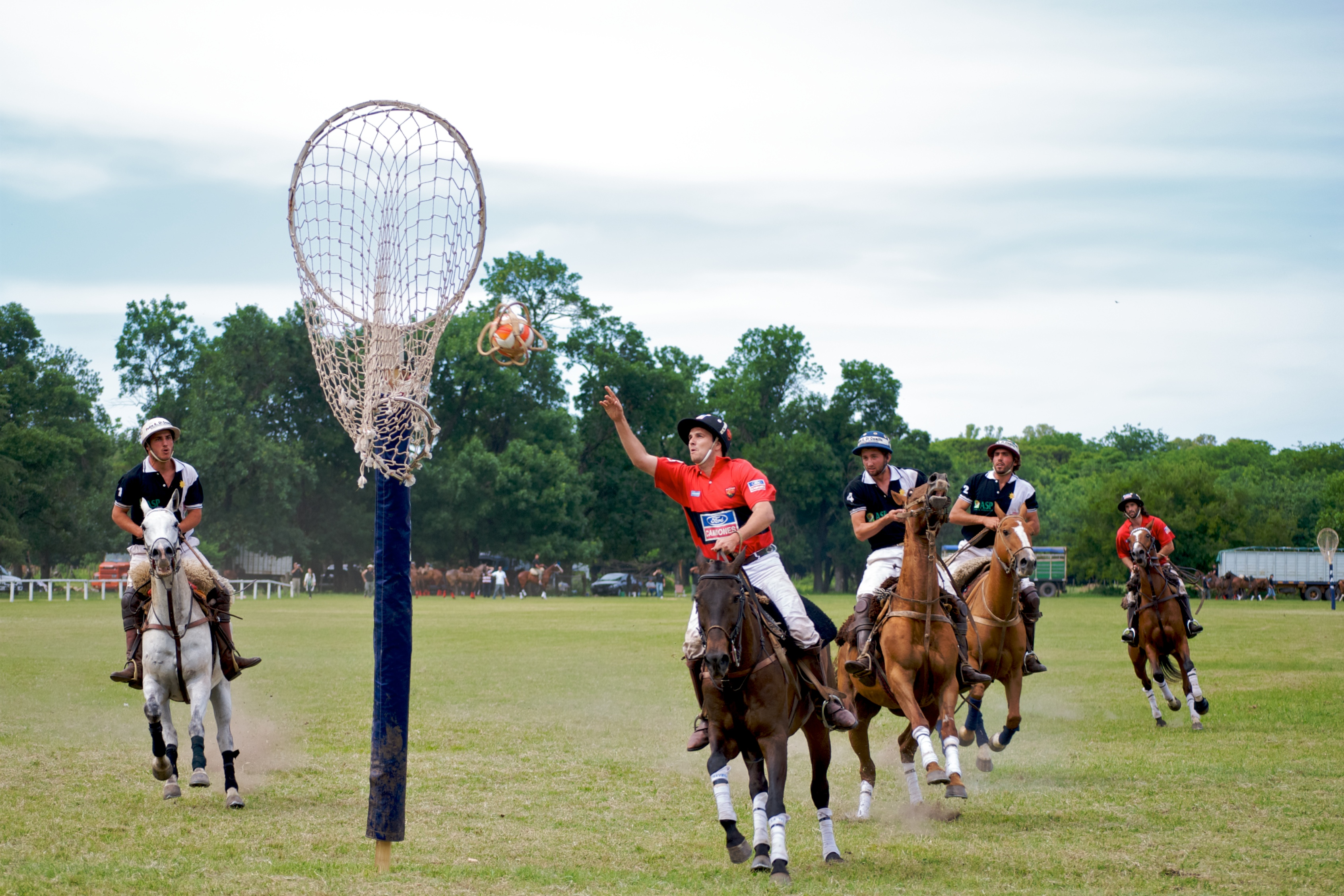 Throwing in for the goal